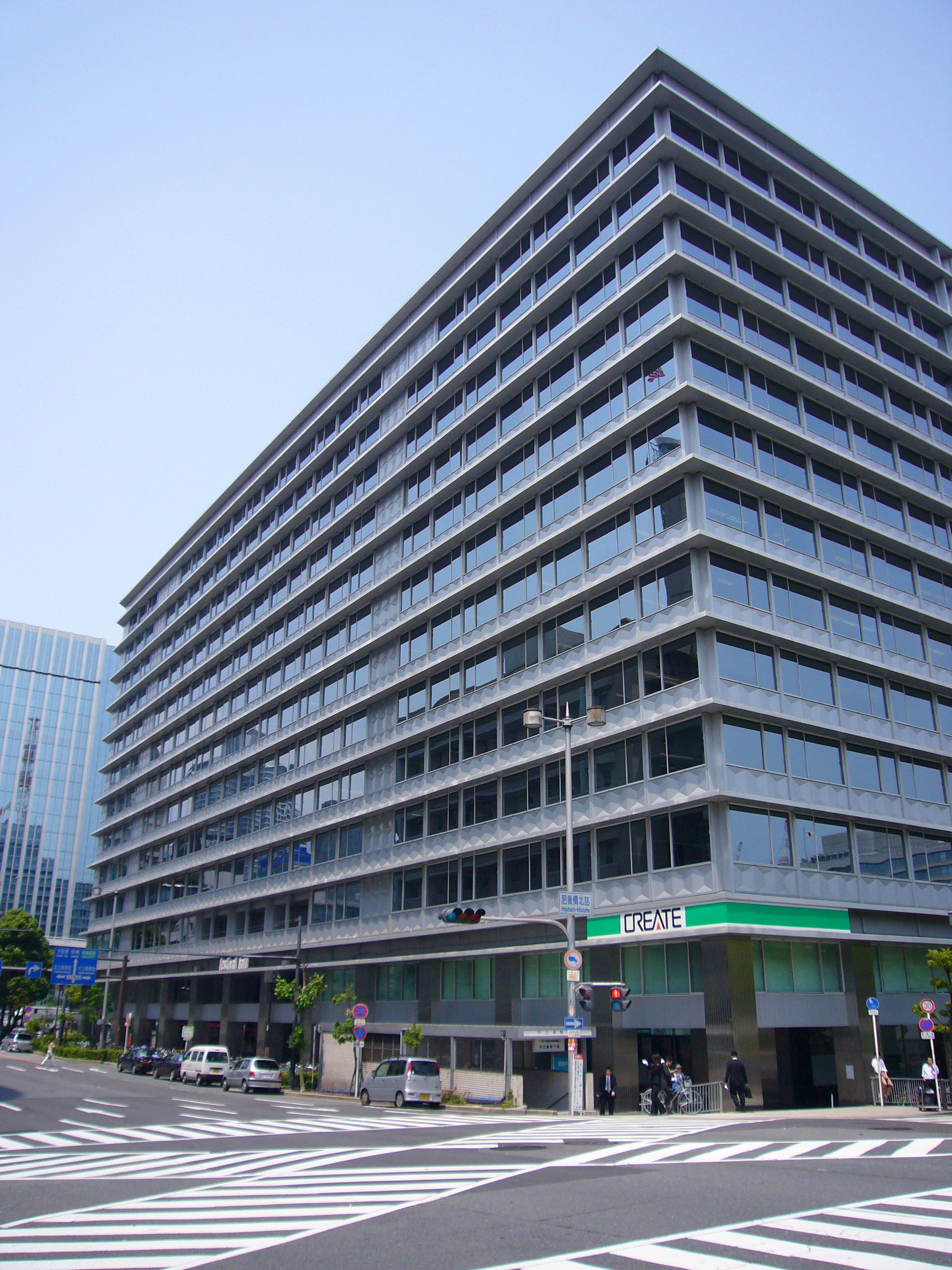 Shin-Asahi Building in Osaka, Osaka prefecture, Japan